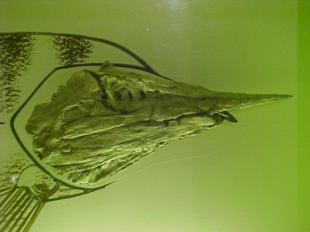 I took this photograph at the Fernbank Science Center, Atlanta, Georgia, on December 6th, 2001.